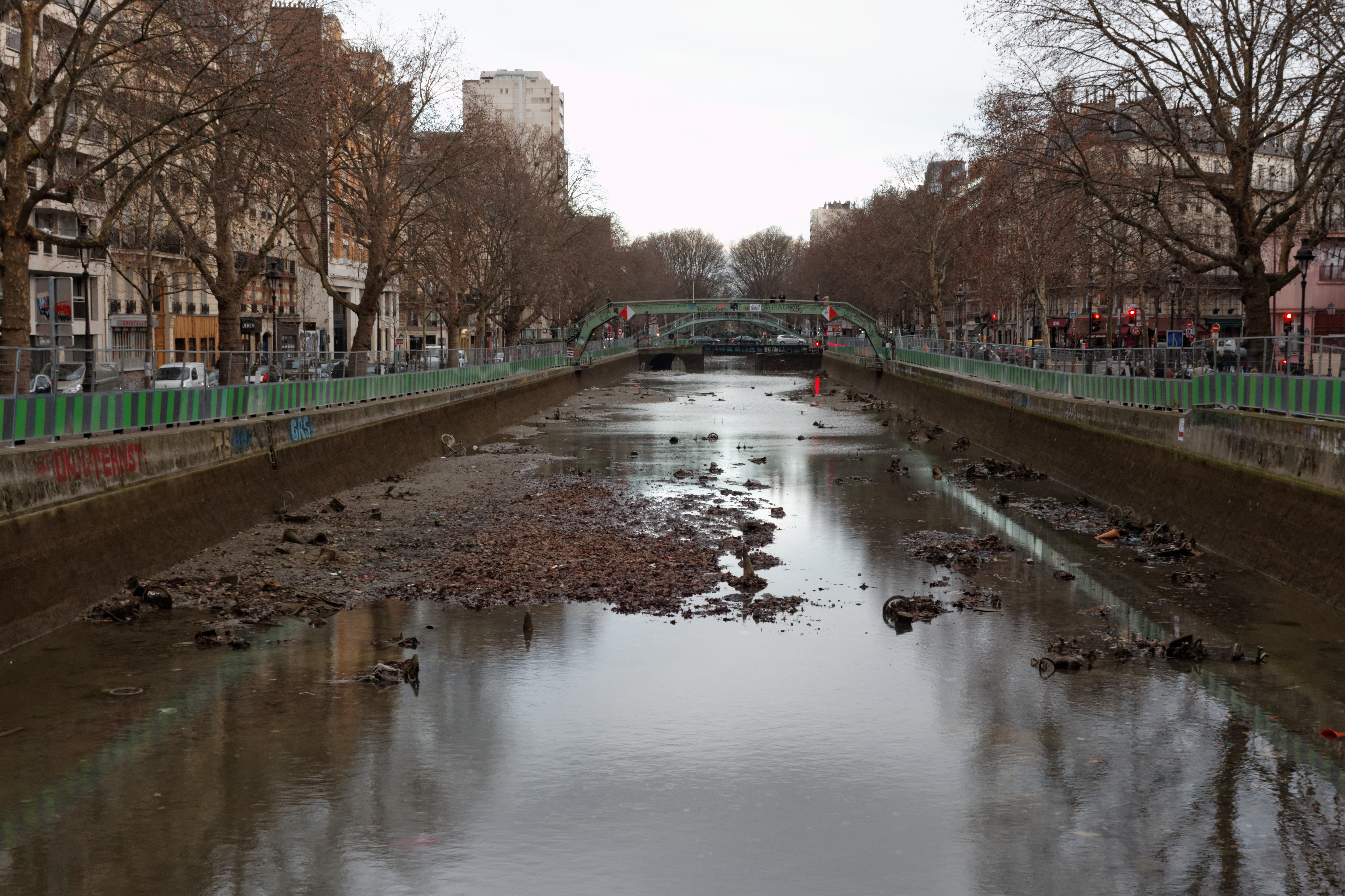 empty Canal Saint-Martin, Paris.